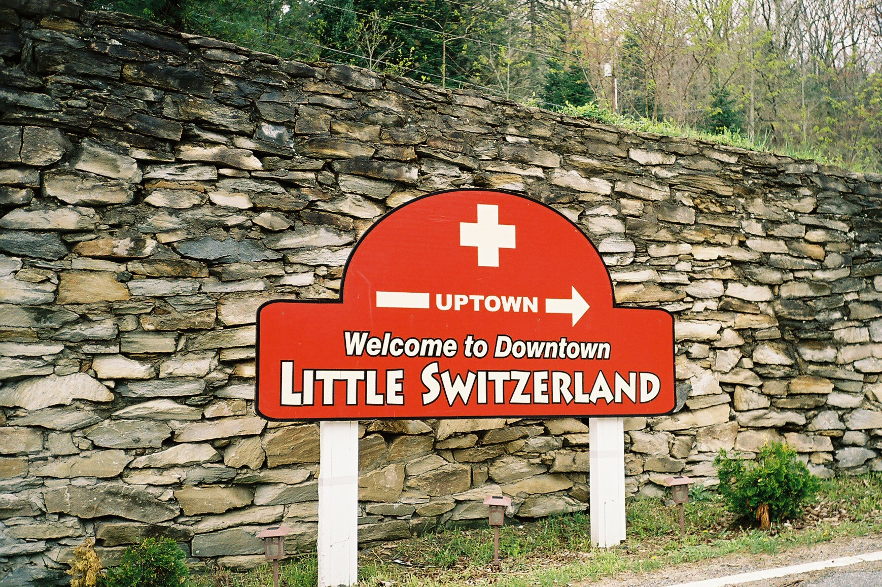 "Welcome To Little Switzerland" - Sign for Little Switzerland, North Carolina, USA.